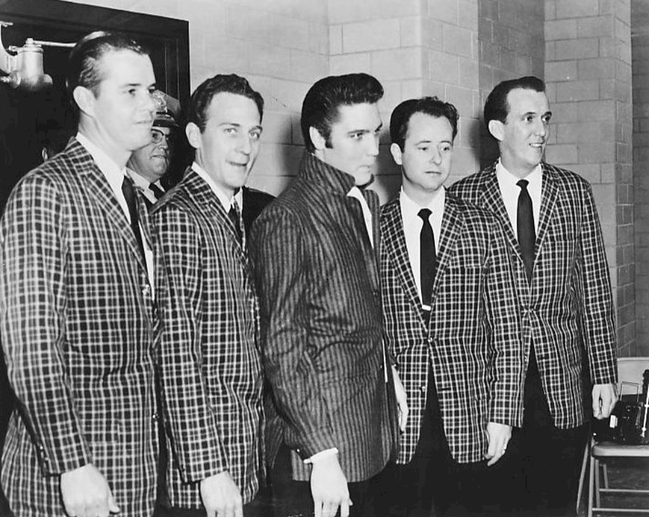 Photo of Elvis Presley with his backup group for many years, The Jordanaires. The Jordanaires recorded, toured and made television appearances with Elvis.